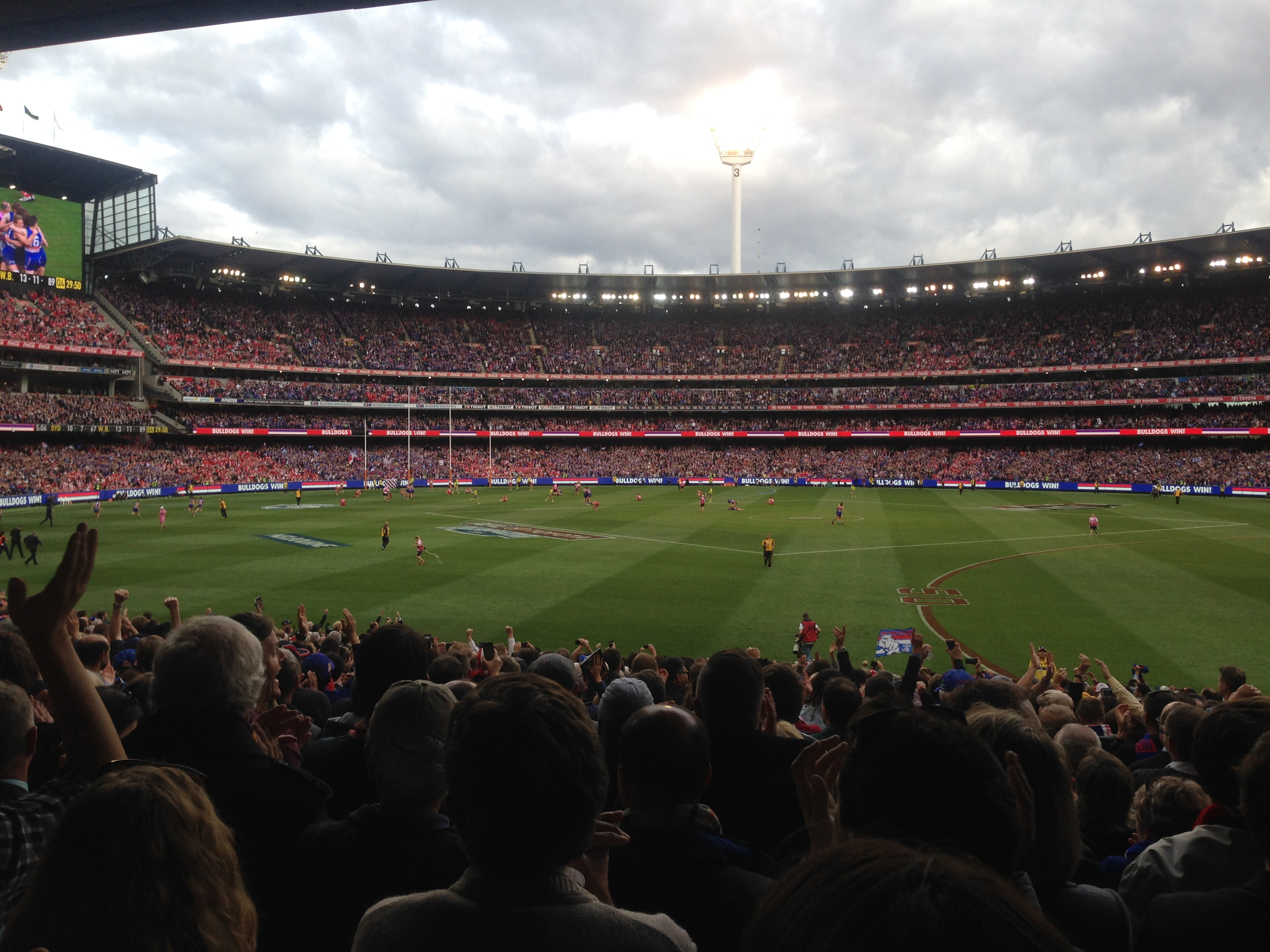 2016 AFL Grand Final. Western Bulldogs players and supporters celebrate on the final siren.